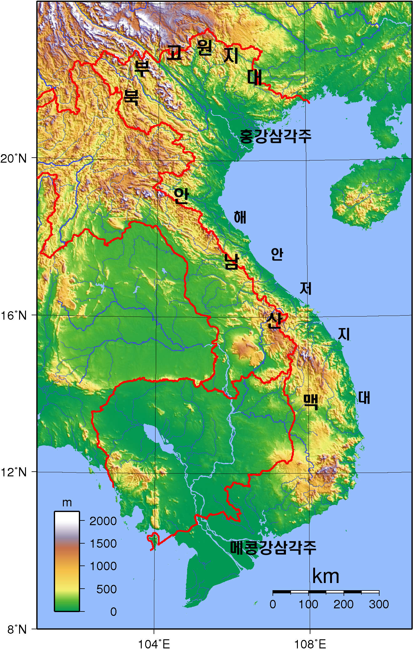 Vietnam Topography labeled remarkable geological name by Korean language